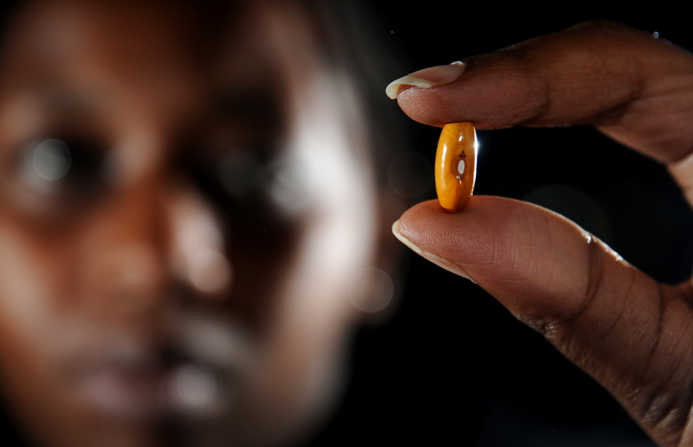 Pic by Neil Palmer (CIAT). The so-called "Enola" yellow bean variety that has been at the centre of a decade-long biopiracy case.